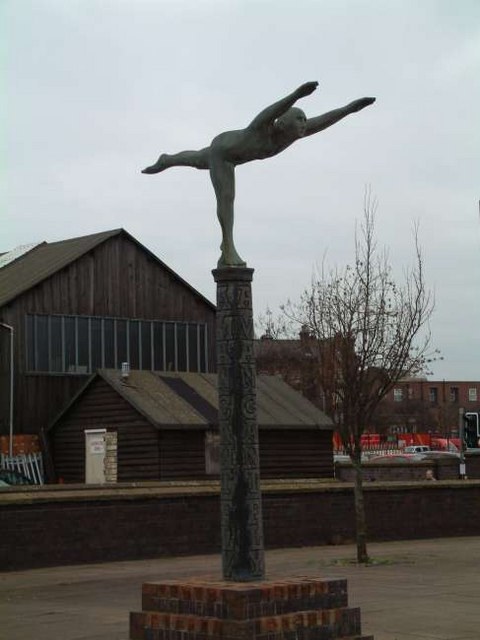 A Man Can't Fly - by Ondre Nowakowski A Man Can't Fly is situated at a busy road junction in Stoke on Trent and is also visible from trains heading south as they depart Stoke on Trent railway station. It is an image that reminds us that we are in too much of a rush to do too much for most of the time. A brick base supports a black column with the words 'A MAN CAN'T FLY' inscribed vertically four times on its surface. Surmounting the column is the figure of a man in an arabesque, a ballet pose where the body balances horizontally upon one leg. The features of the man are smooth with no particular identifying features, because of this the statue appears to represent all men.